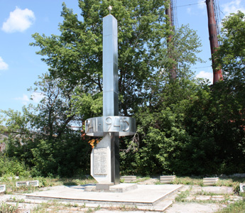 Сарапульский лесозавод, памятник участникам ВОВ